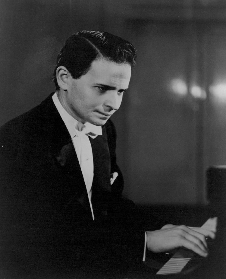 Photo of pianist Byron Janis.